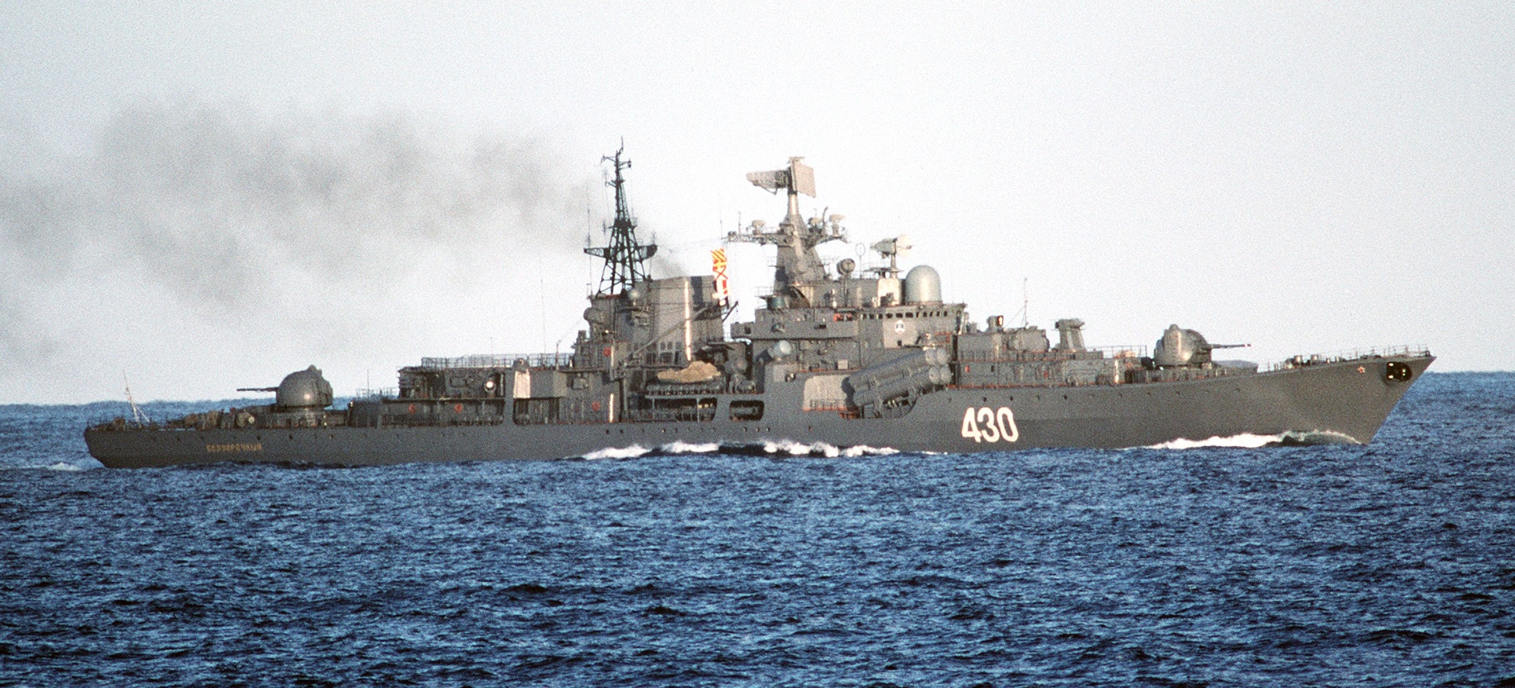 A starboard view of the Soviet Sovremennyy class guided missile destroyer BEZUPRECHNNY observing NATO ships during NATO Exercise NORTHERN WEDDING 86.